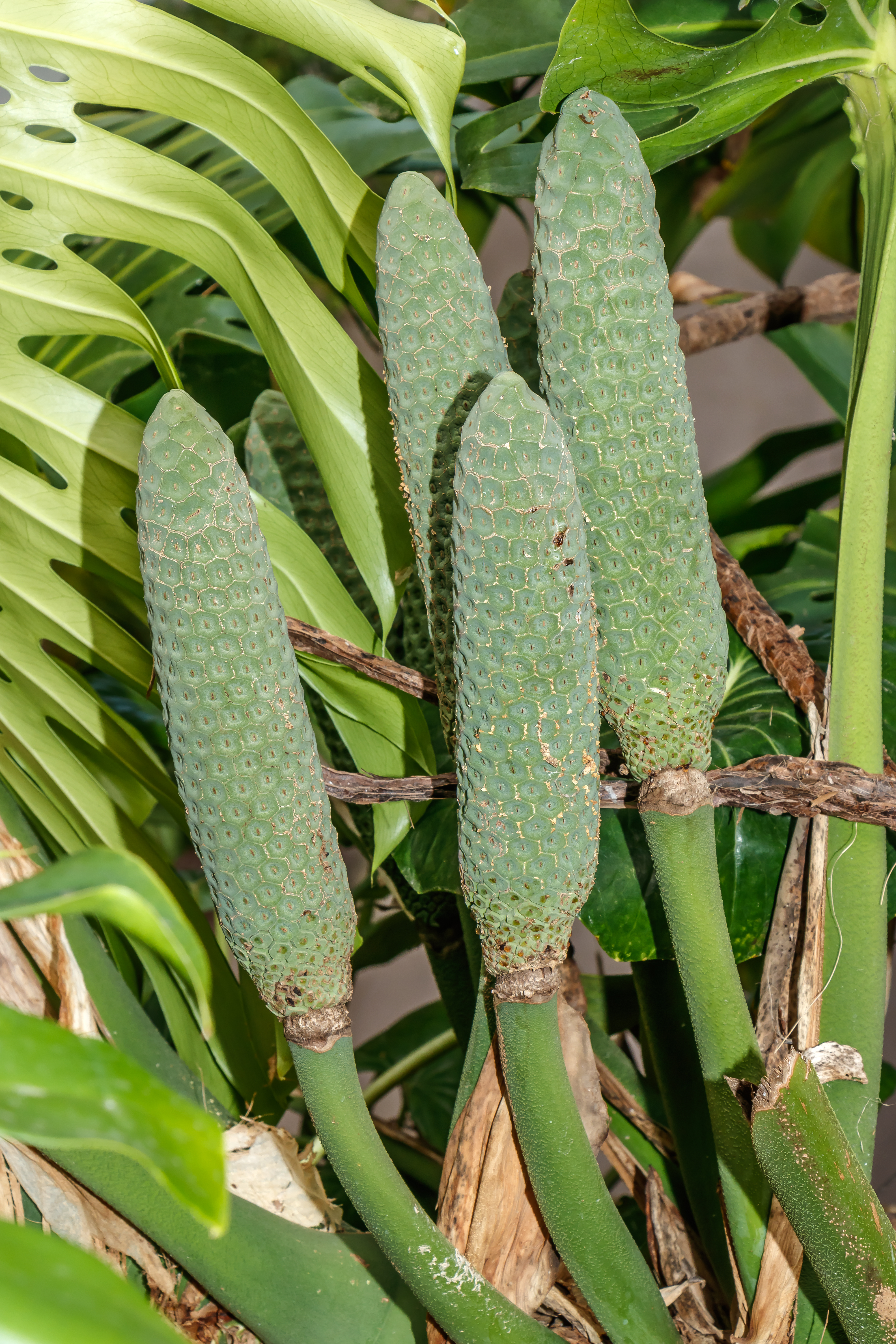 Infrutescences of Monstera deliciosa Liebm. (1849), ceriman; Hacienda San Jorge, Los Cancajos, Breña Baja, La Palma, Canary Islands, Spain.